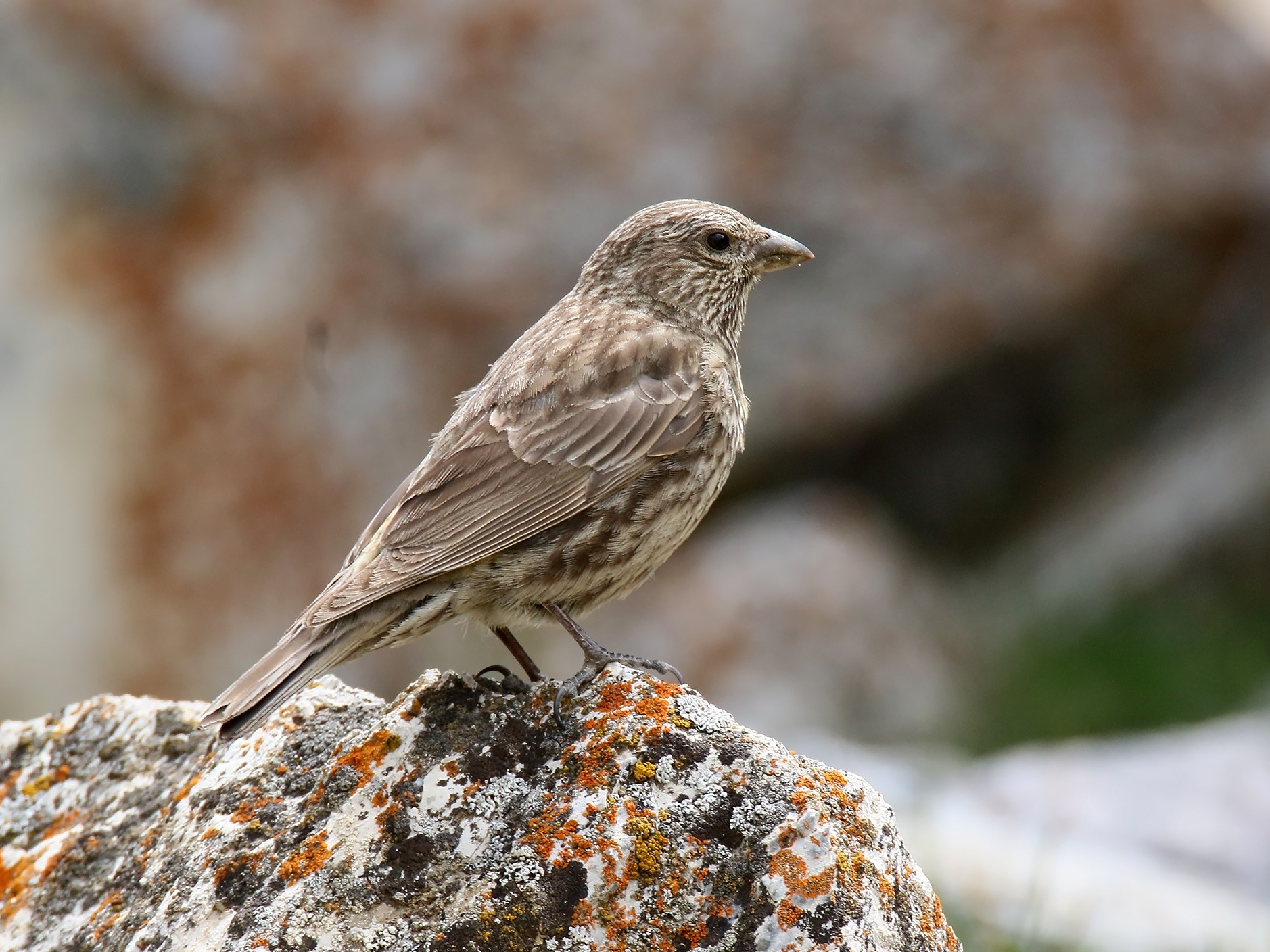 Red-fronted Rosefinch (Carpodacus puniceus) captured at Brum Ther, Gojal, Gilgit-Baltistan, Pakistan with Canon EOS 7D Mark II